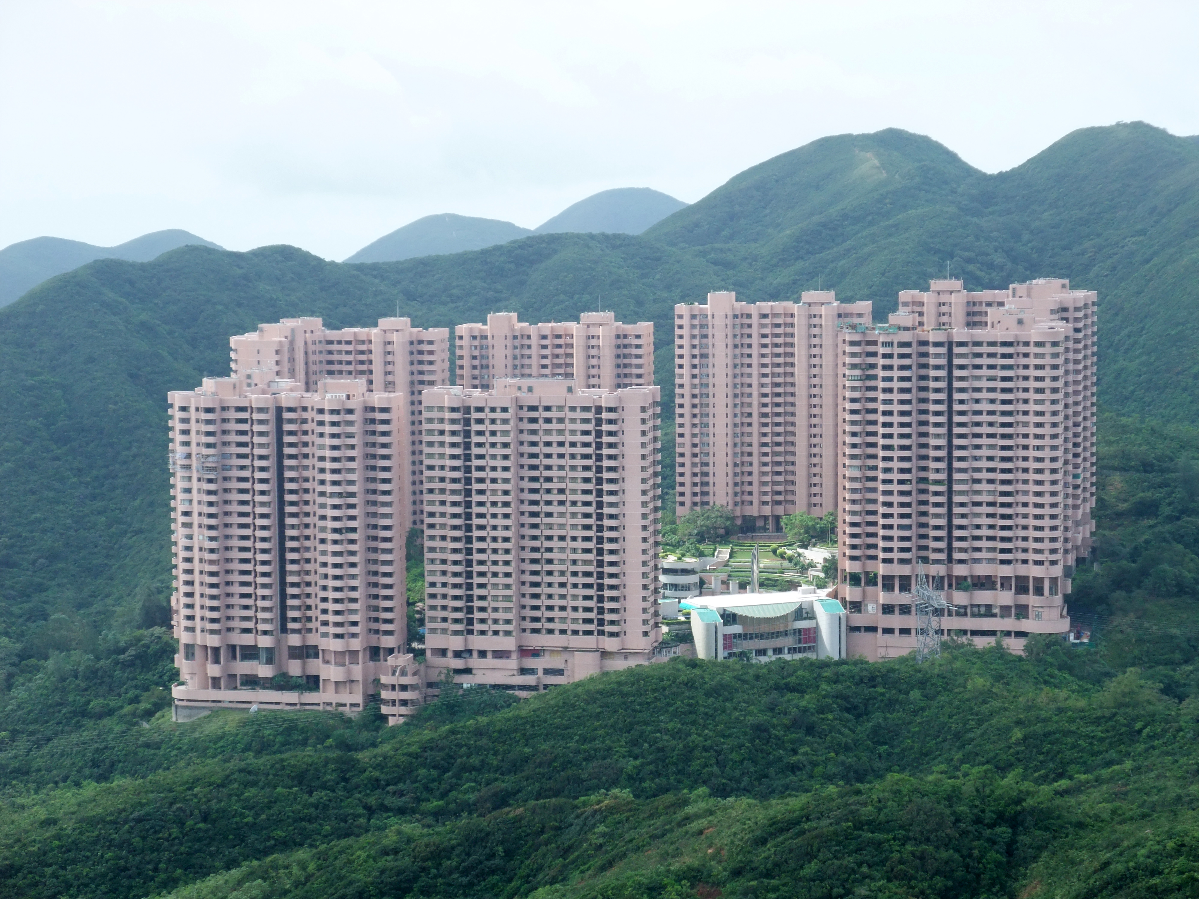 Photo of Hong Kong Parkview